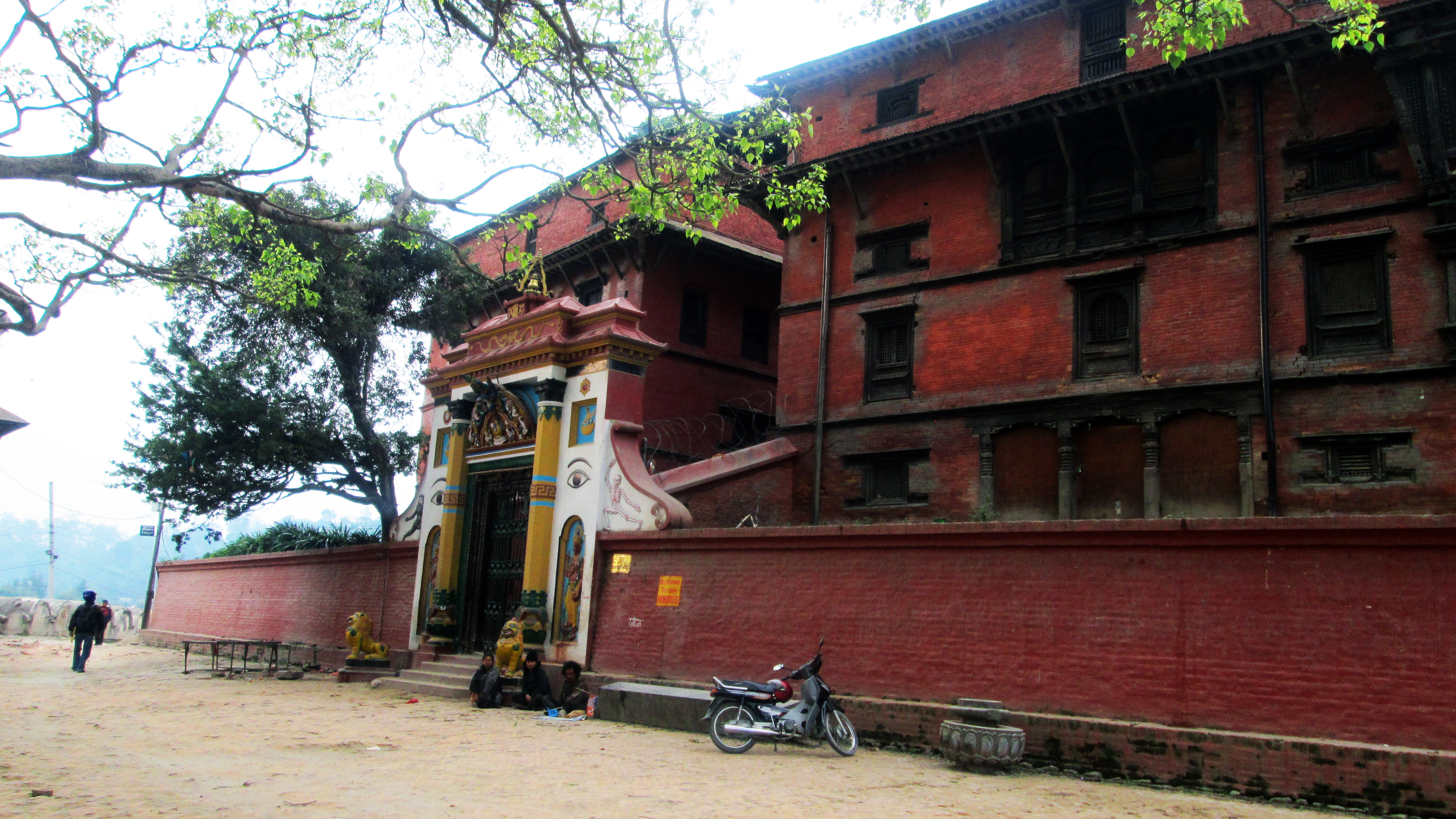 2015 Earthquake in Nepal-Guhyeshwari Temple Area